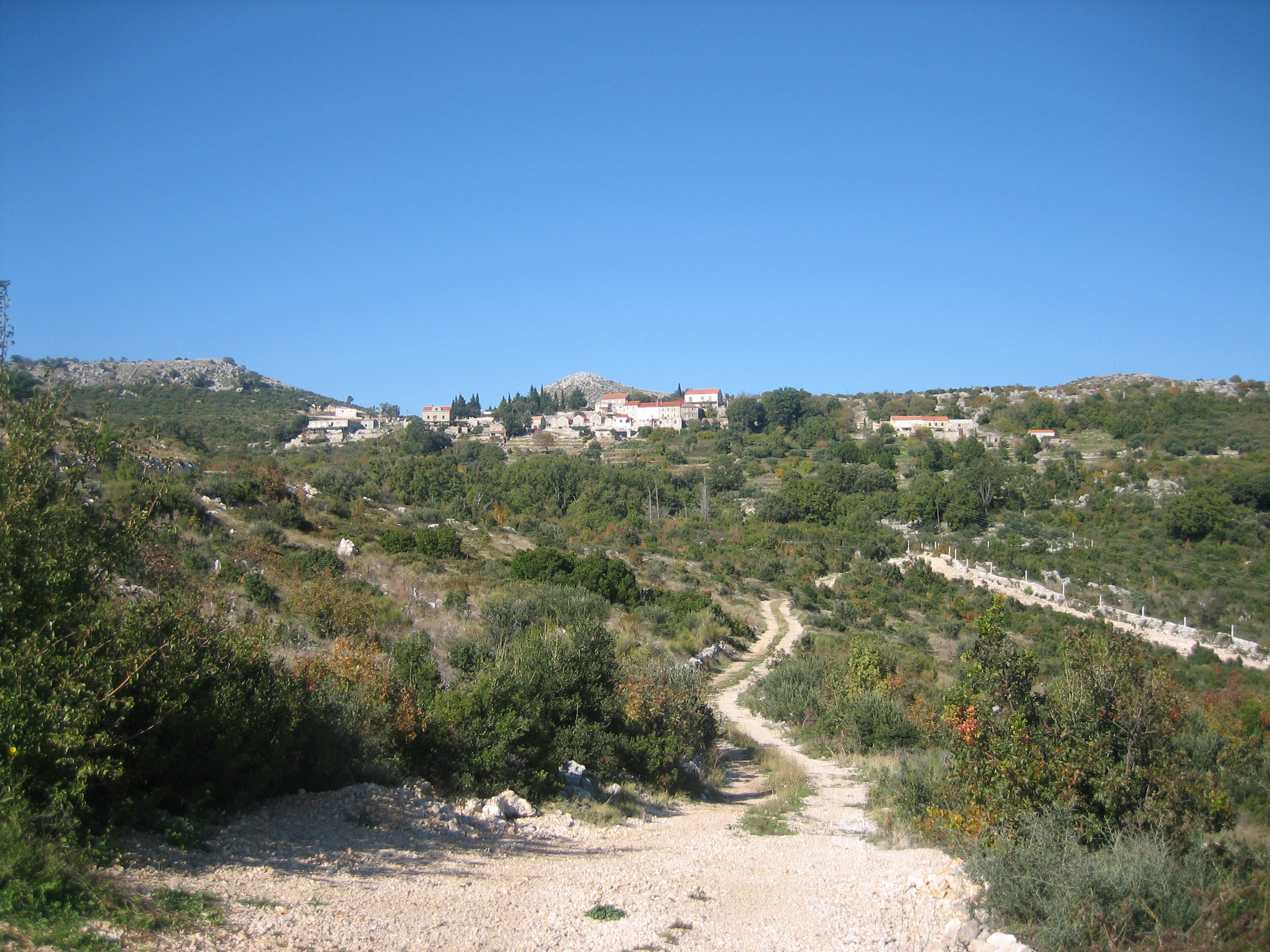 Pobrežje, village near DubrovnikPodbrežje?